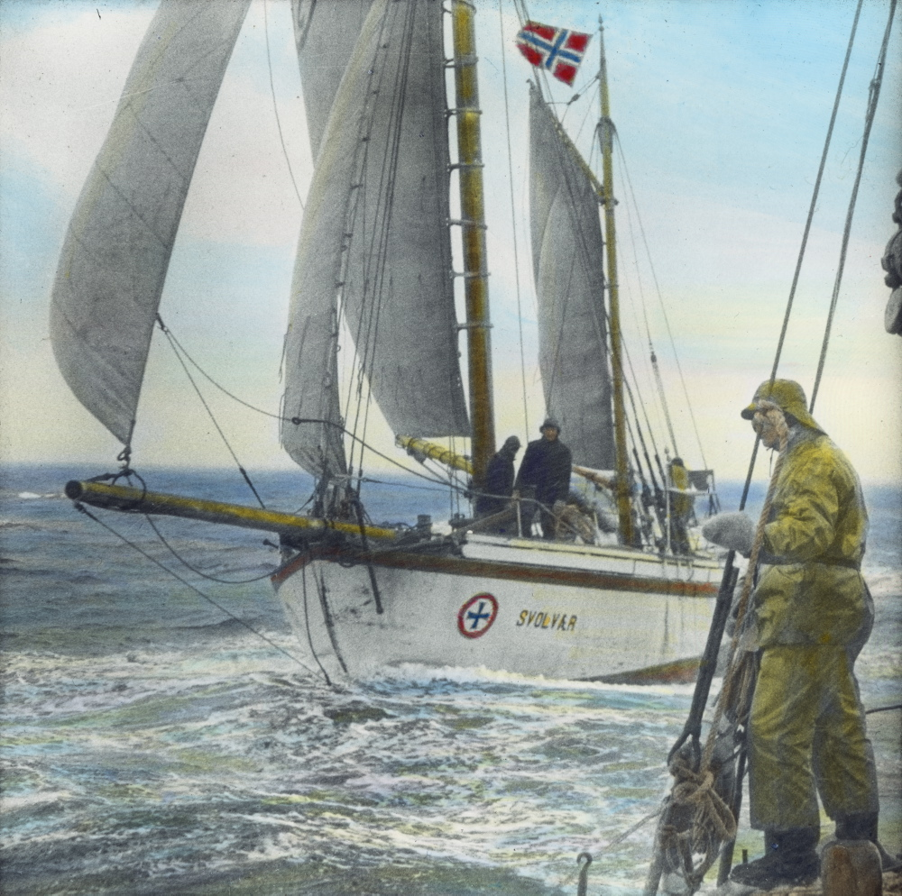 Håndkolorert dias. Redningsskøyta "Svolvær" seiler. I forgrunnen står en mann kledd i oljehyre og sydvest ombord i en annen båt.